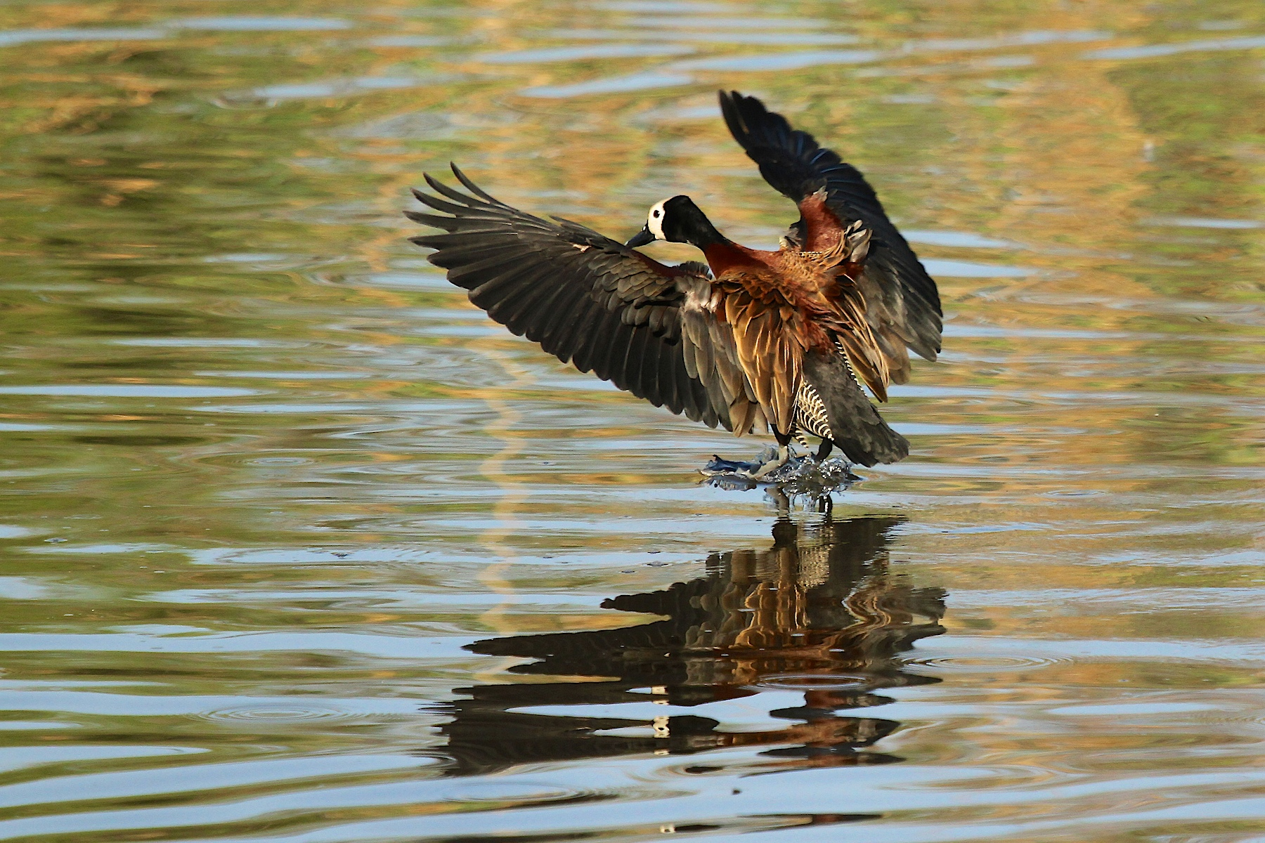 Austin Roberts Bird Sanctuary, New Muckleneuk, Pretoria This media shows a South African Protected Site with SAHRA file reference 9/2/258/0035.